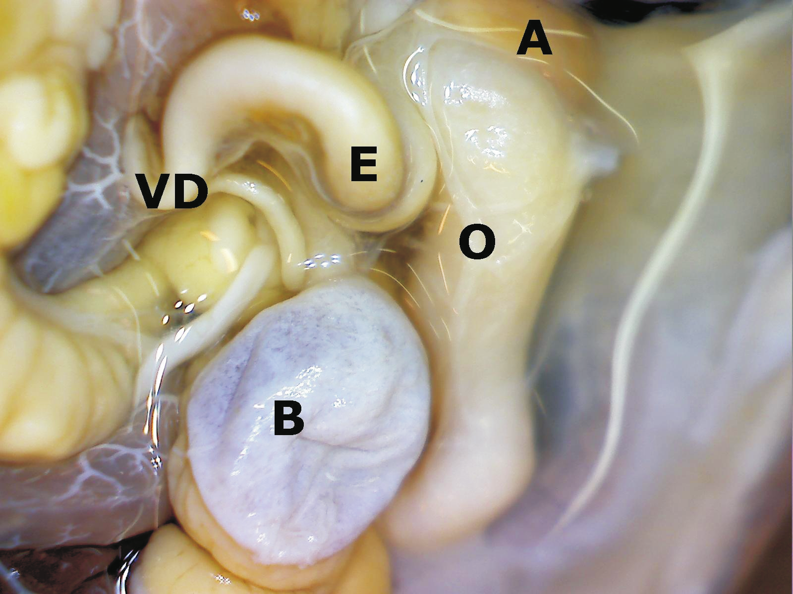 Photo of reproductive system of Arion vulgaris. Locality: Timuşu de Sus, Romania. A – atrium; E – epiphallus; VD – vas deferens or sperm duct; O – oviduct; B – bursa copulatrix or spermatheca.